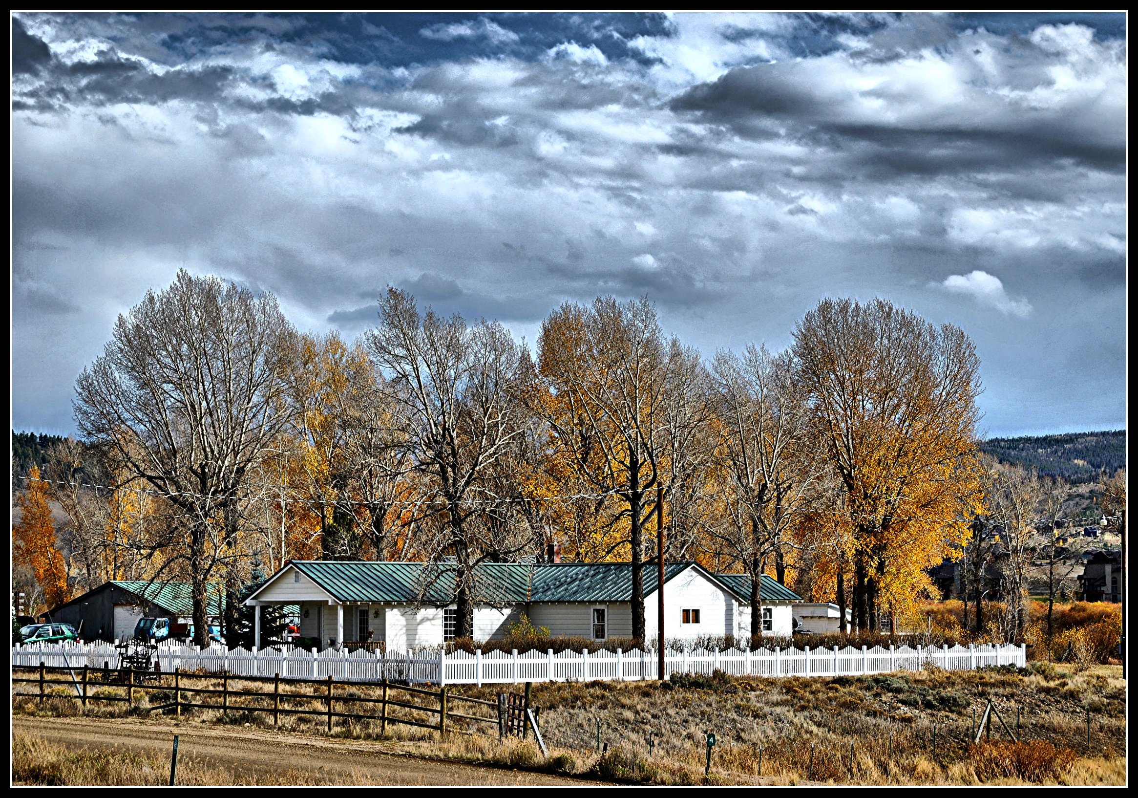 Granby Colorado From California Zephyr